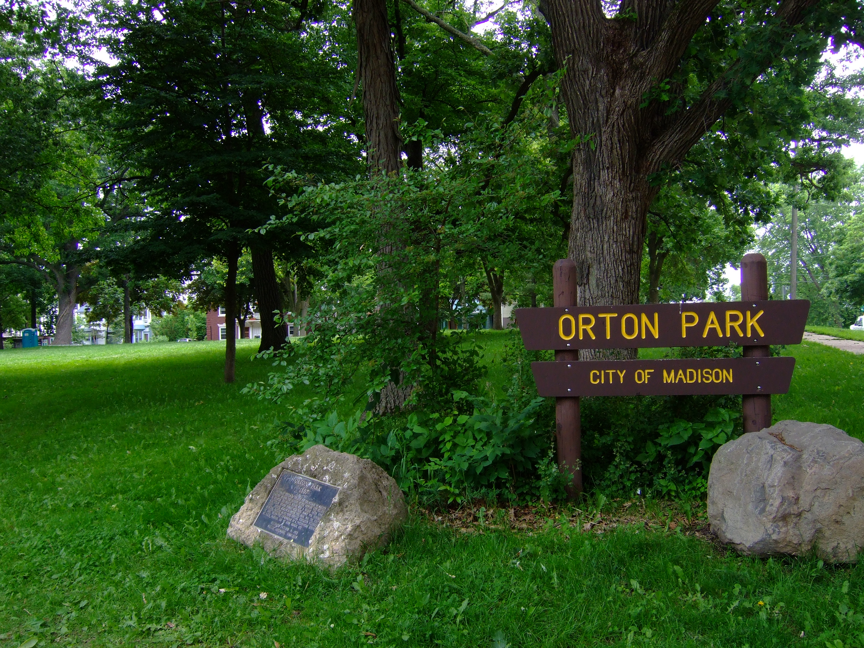 Orton Park in Madison, Wisconsin, was originally chosen as the site for the Village of Madison Cemetery in 1846. A decade later, upon acquisition of the Forest Hill site, the fathers of the growing city decided to disinter the bodies buried here. Named for Sureme Court Justice Harlow S. Orton, the park was the first municipal facility of its type. Official dedication occurred in 1887, being the culmination of a 12-year effort by Sixth Warders led by John George Ott. The park was added to the National Register of Historic Places in 1978.